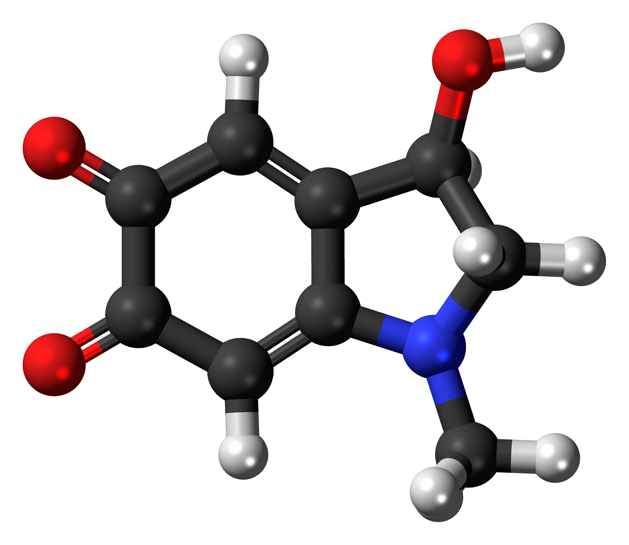 Ball-and-stick model of the adrenochrome molecule, a hemostatic agent produced from adrenalin. Color code: Carbon, C: black Hydrogen, H: white Oxygen, O: red Nitrogen, N: blue